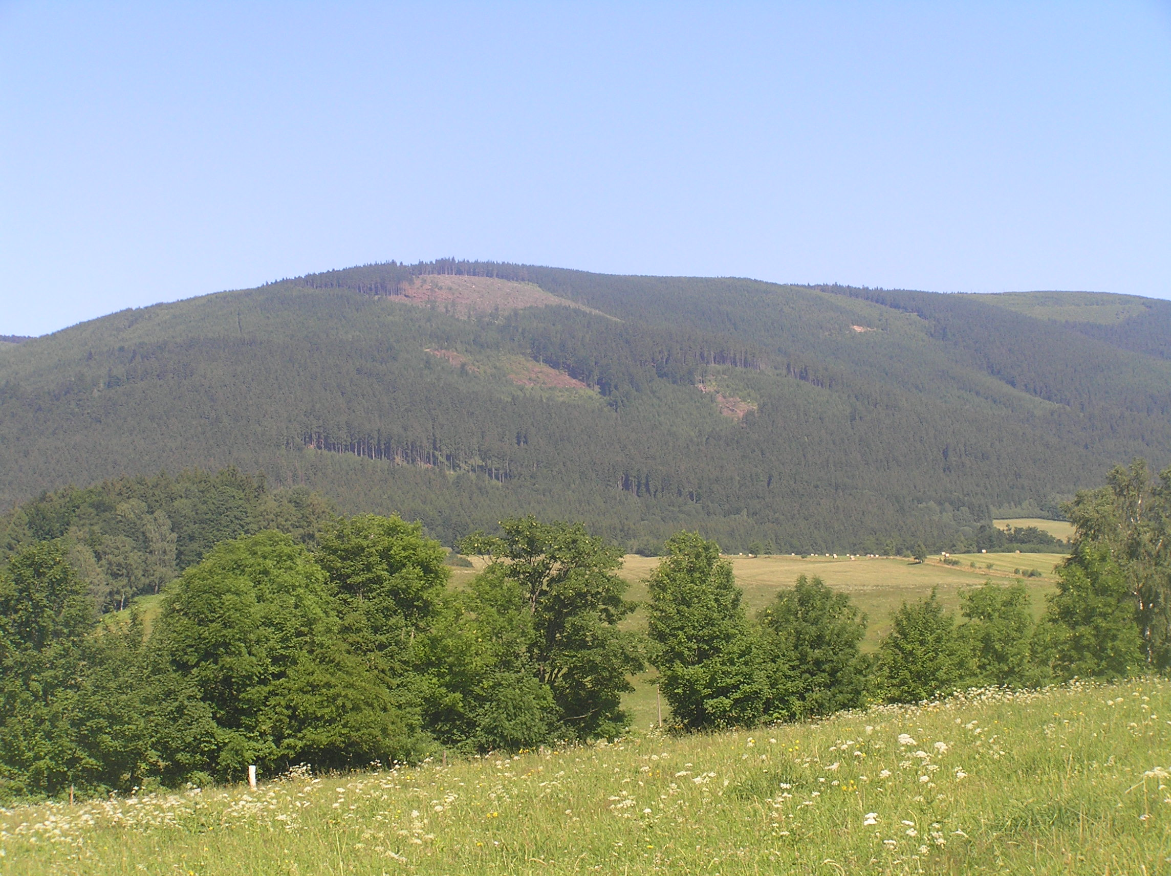 Velká Šindelná, The Králický Sněžník Mountains, Czech Republic